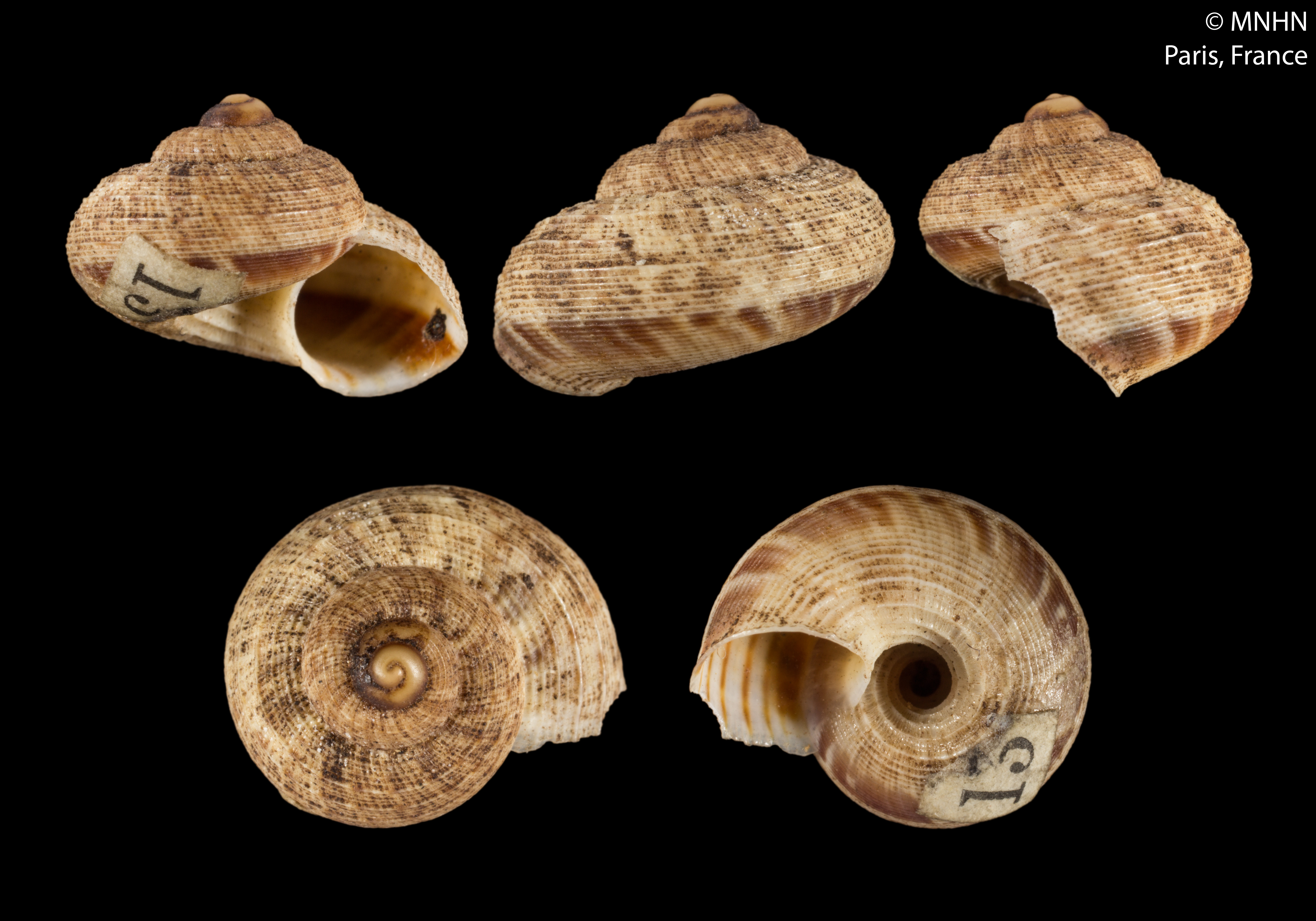 PRESERVED_SPECIMEN; Cyclostoma desmazuresi Crosse, 1873; Type status: SYNTYPE; Identified by: N/A; Individual count: 2; Event date: N/A